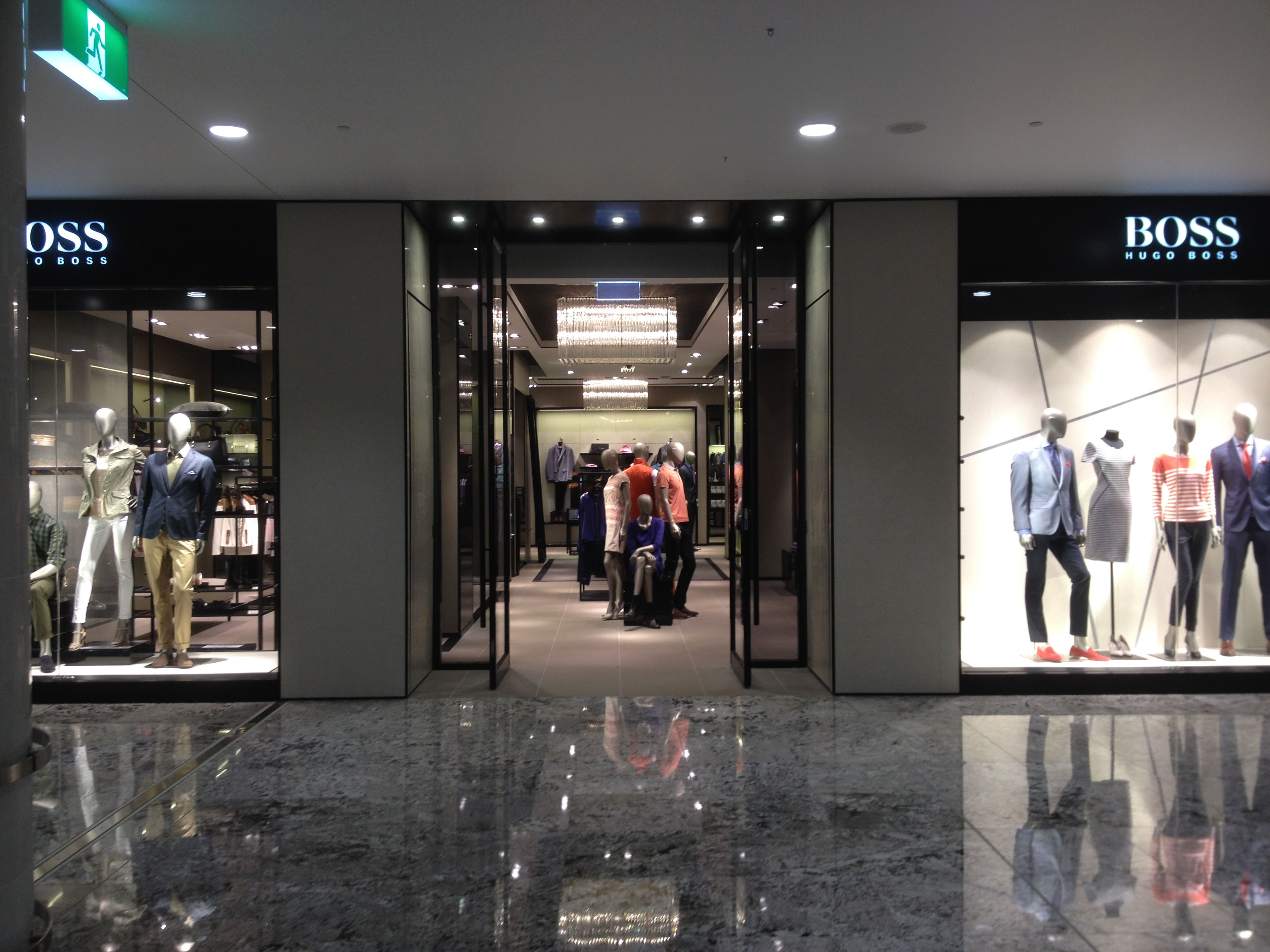 Hugo Boss shop at the Indooroopilly Shopping Centre